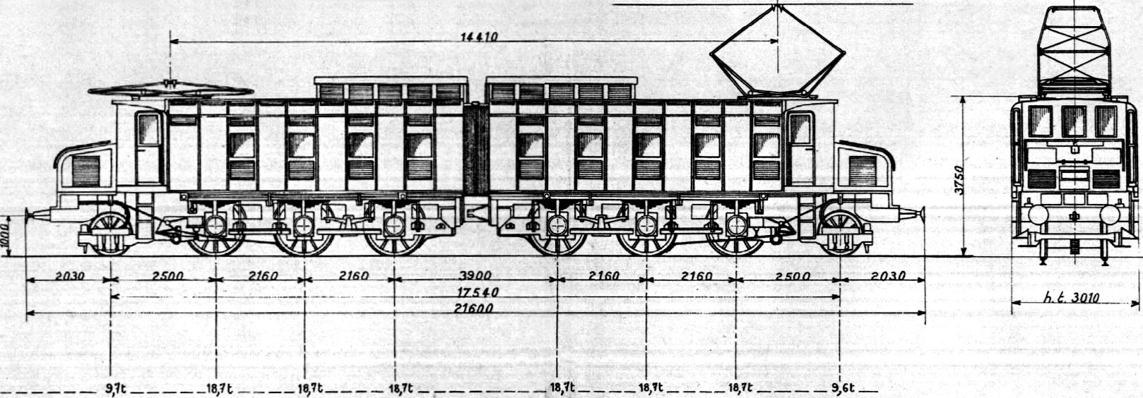 Drawaing of the electric locomotive 1'Co+Co1' PLM 161 DE 1, 1927.